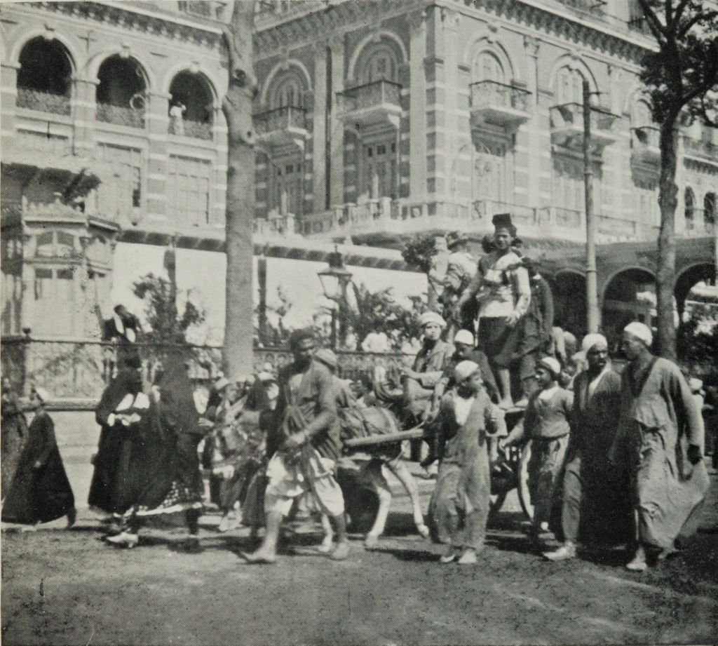 “A MARRIAGE PROCESSION, WITH THE HÔTEL CONTINENTAL IN THE BACKGROUND.”A procession of men, escorting a cart with a person on it. Black-and-white photograph.